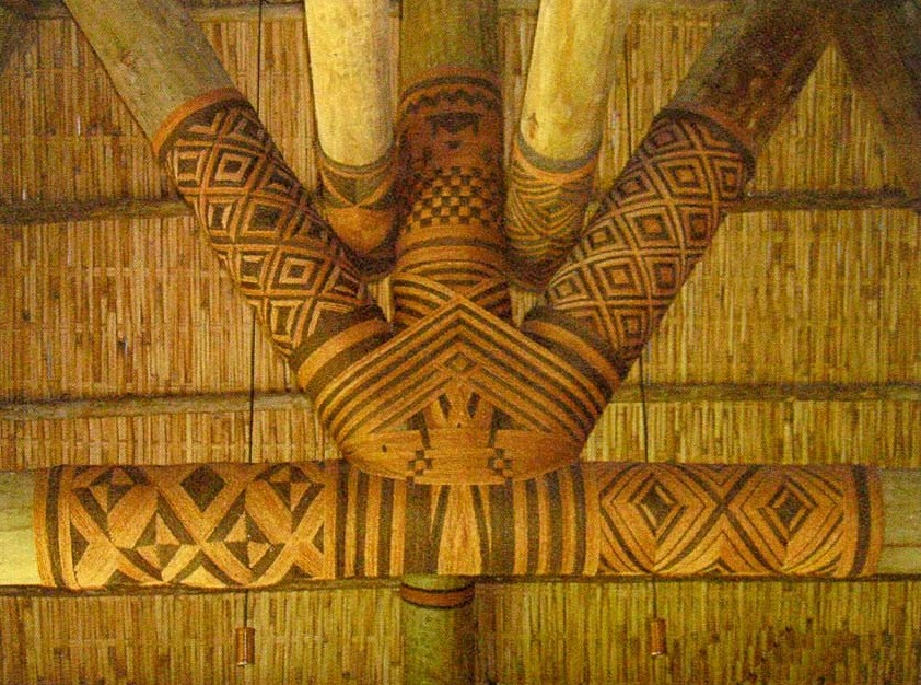 Magimagi is a product made of coconut husk.